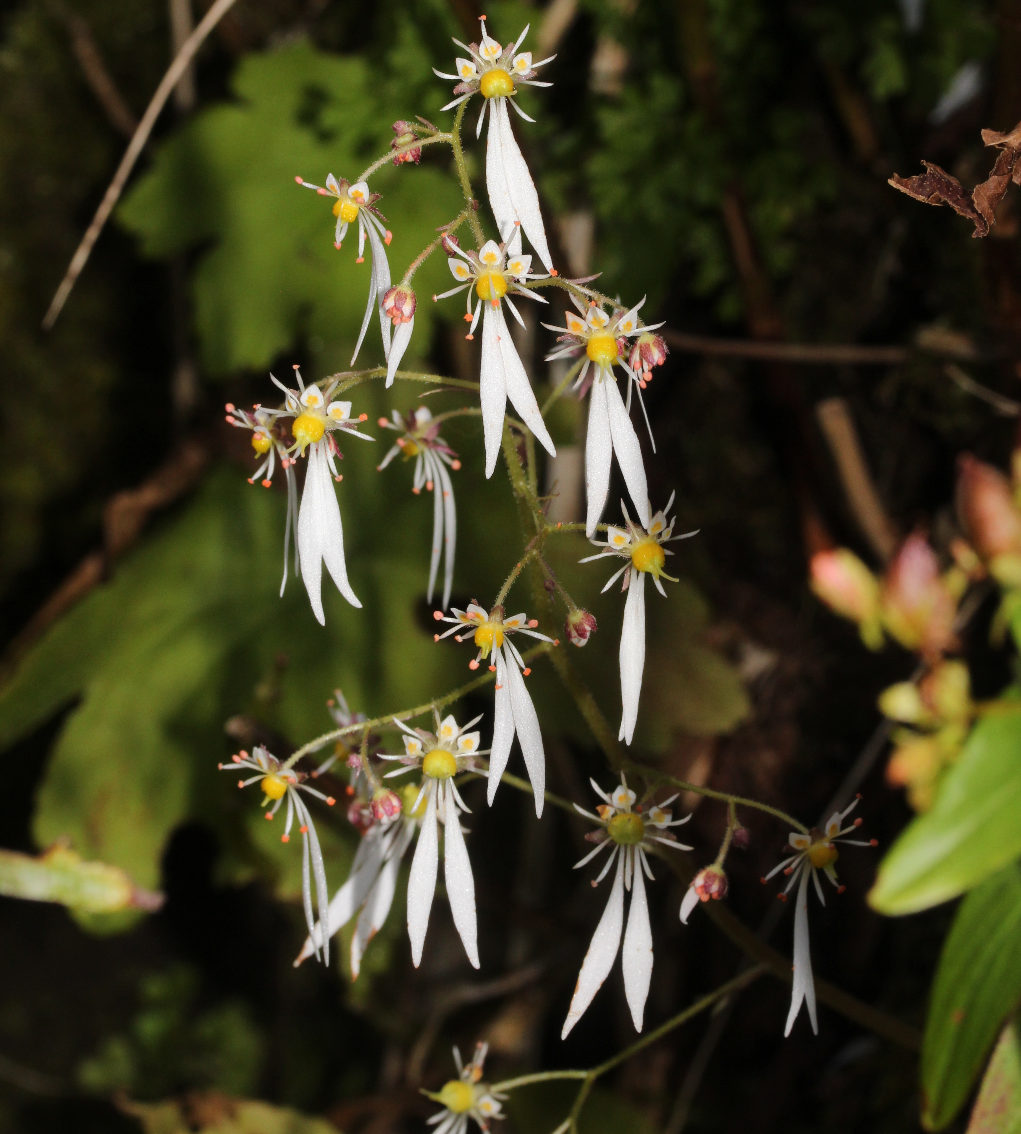 Saxifraga cortusifolia, in Maibara, Shiga prefecture, Japan.